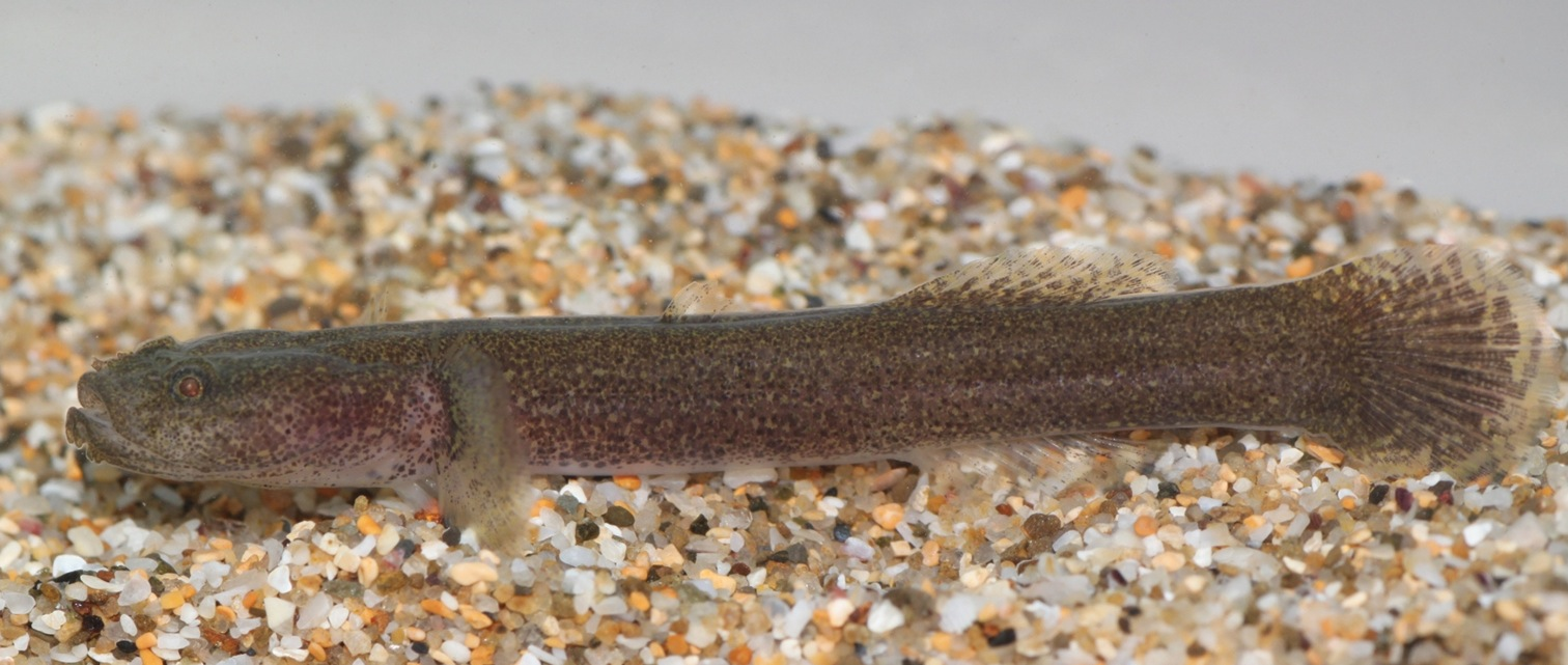 A living specimen of Clariger taiwanensis, NTOUP-2011-11-057, paratype, 30.0 mm SL, Keelung City, Taiwan.